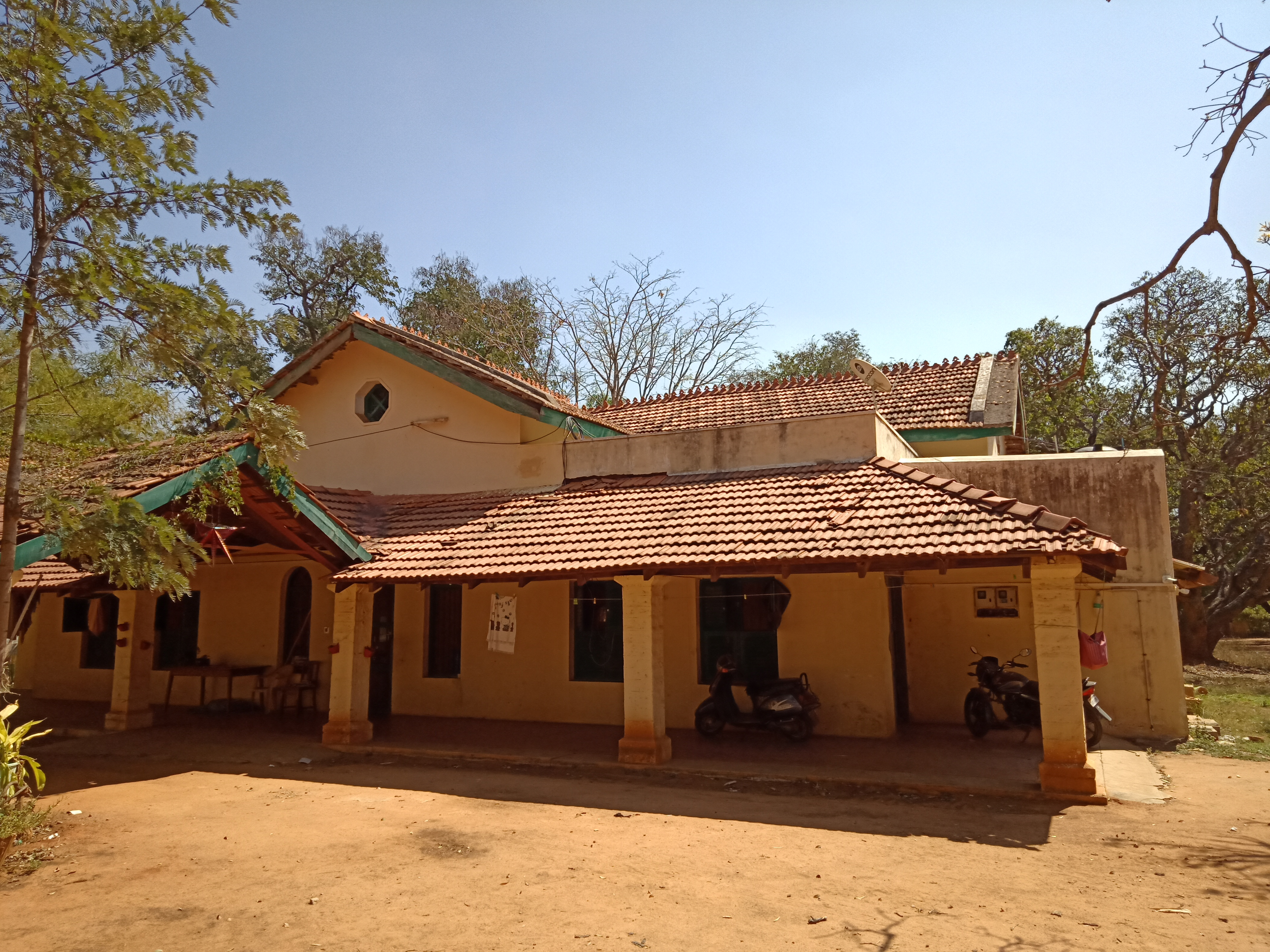 Former residence of TV Campbell of the Wardlaw Thompson Hospital, Chikkaballapur